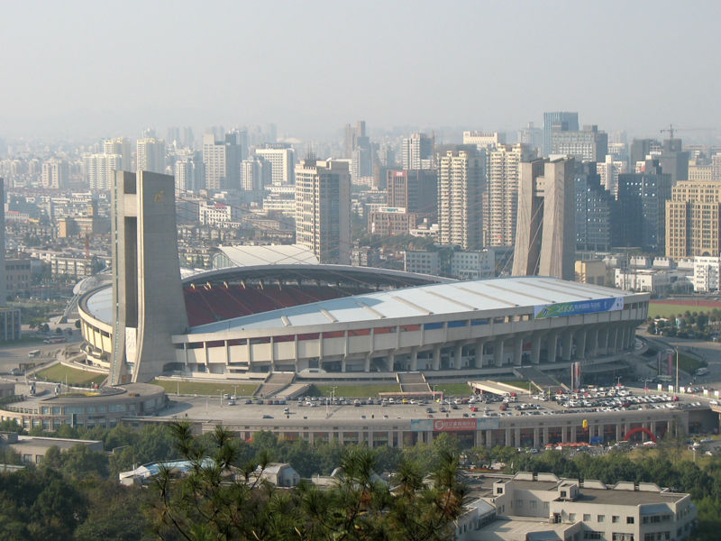 Hangzhou, China's Yellow Dragon Stadium as seen from Geling Hill. Author